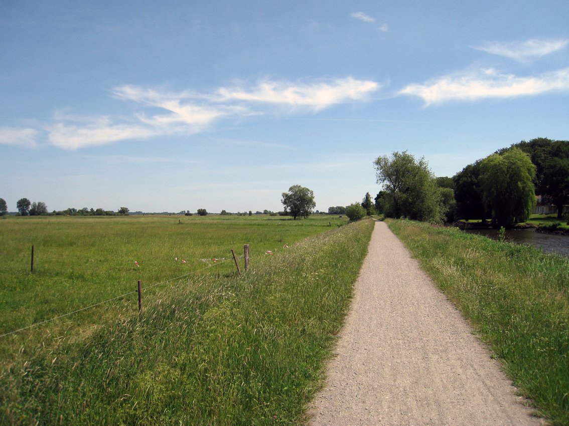 The nature reserve Borgfelder Wümmewiesen in Bremen (Germany).